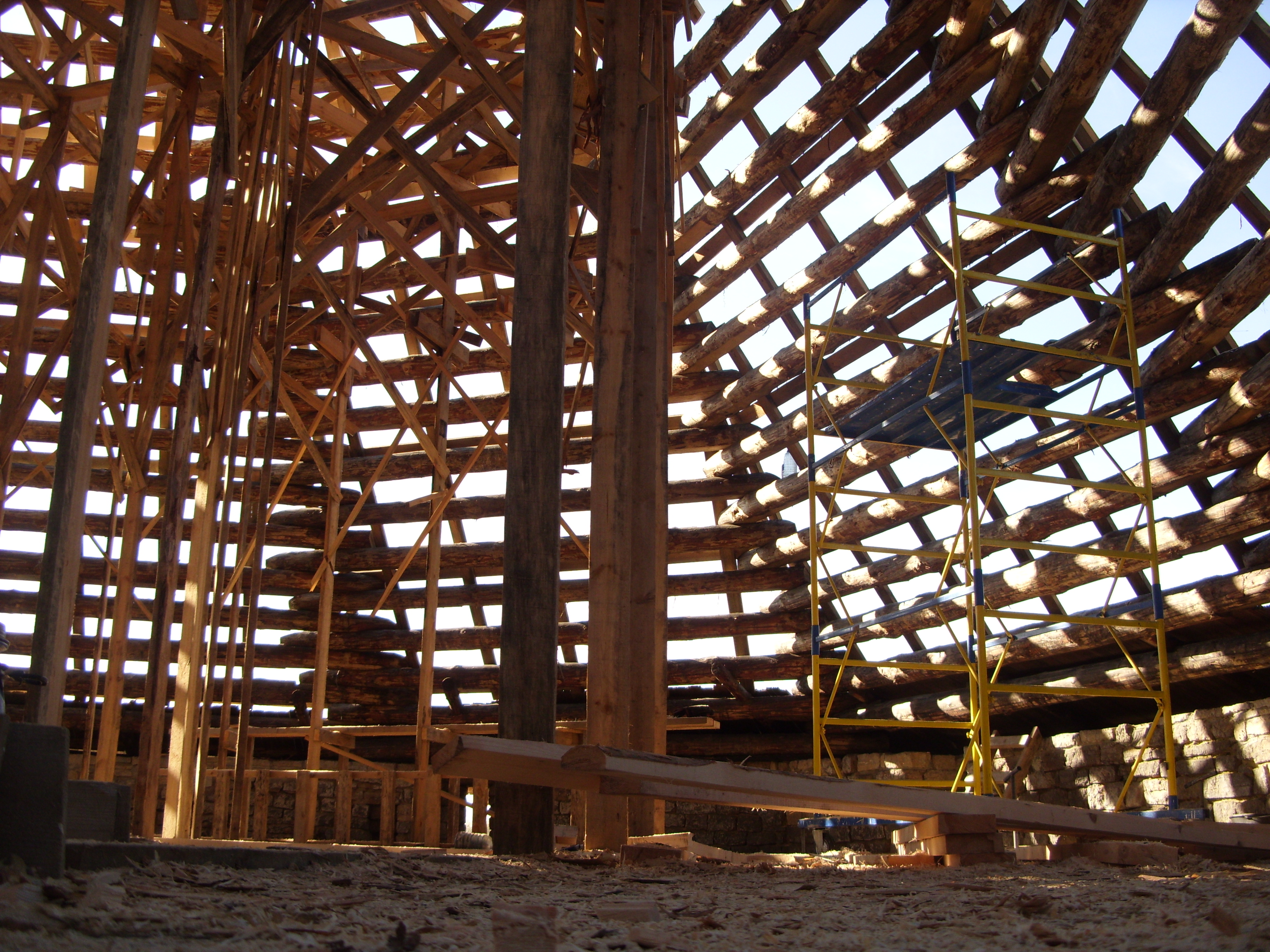 Pokrovskaja bashnja Pskov